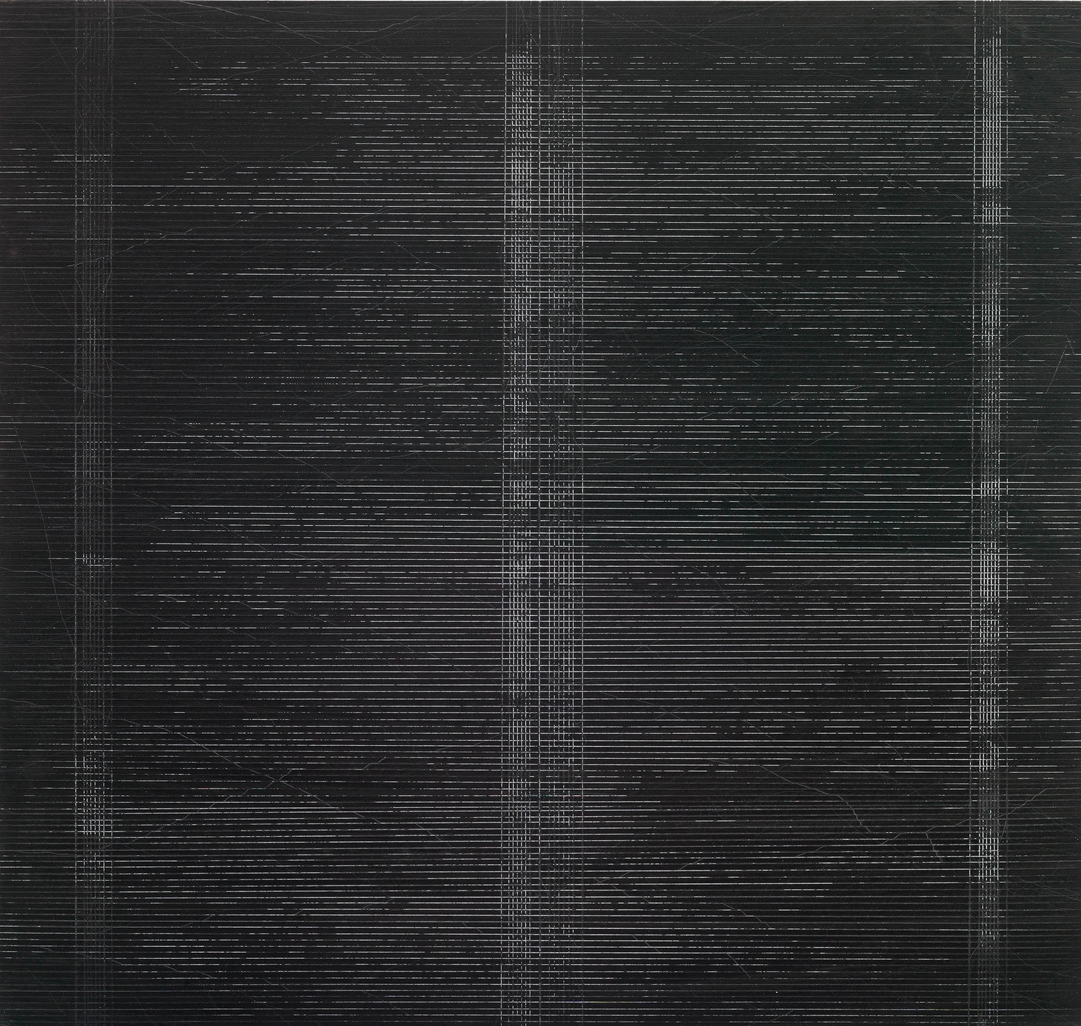 Lucie Beppler, 2014, Pencil, Etching Needle and Indian Ink on Grounded Cardboard, 55 x 60 cm